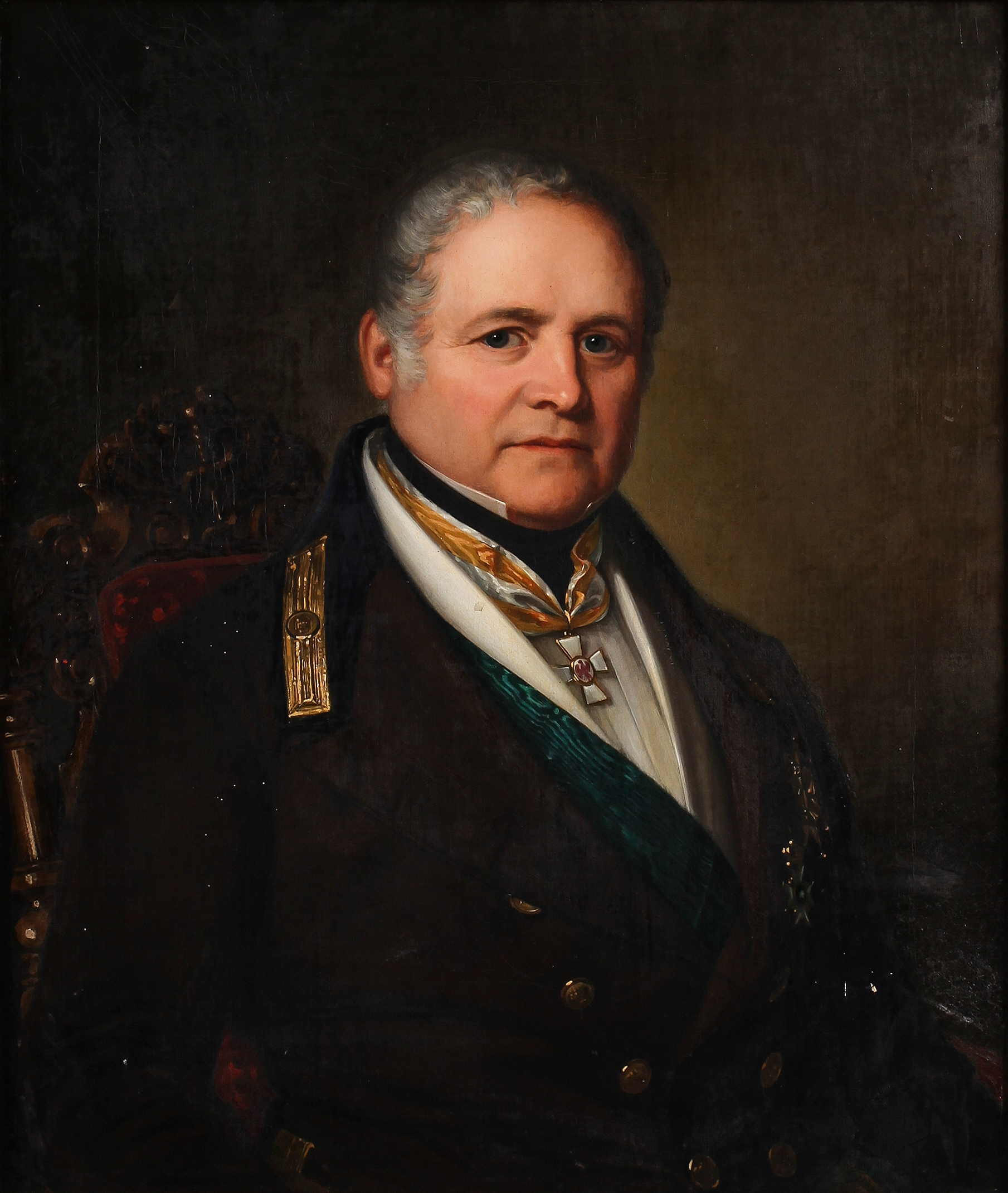 Erik af Edholm (1777-1856), Swedish nobleman, physician and archiater to king Charles XIV John of Sweden.